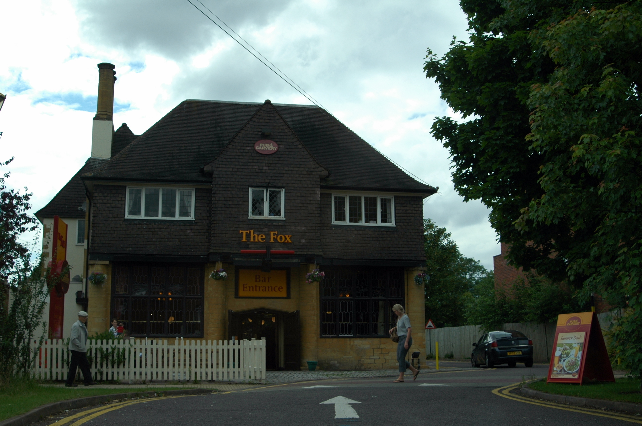 This is the Fox pub in Walmley, Sutton Coldfield. The current building dates from the 1930s though a pub under the name of The Fox has been located on the site since Vicotiran times. Image taken by Erebus555 - Erebus555 16:19, 23 June 2007 (UTC)